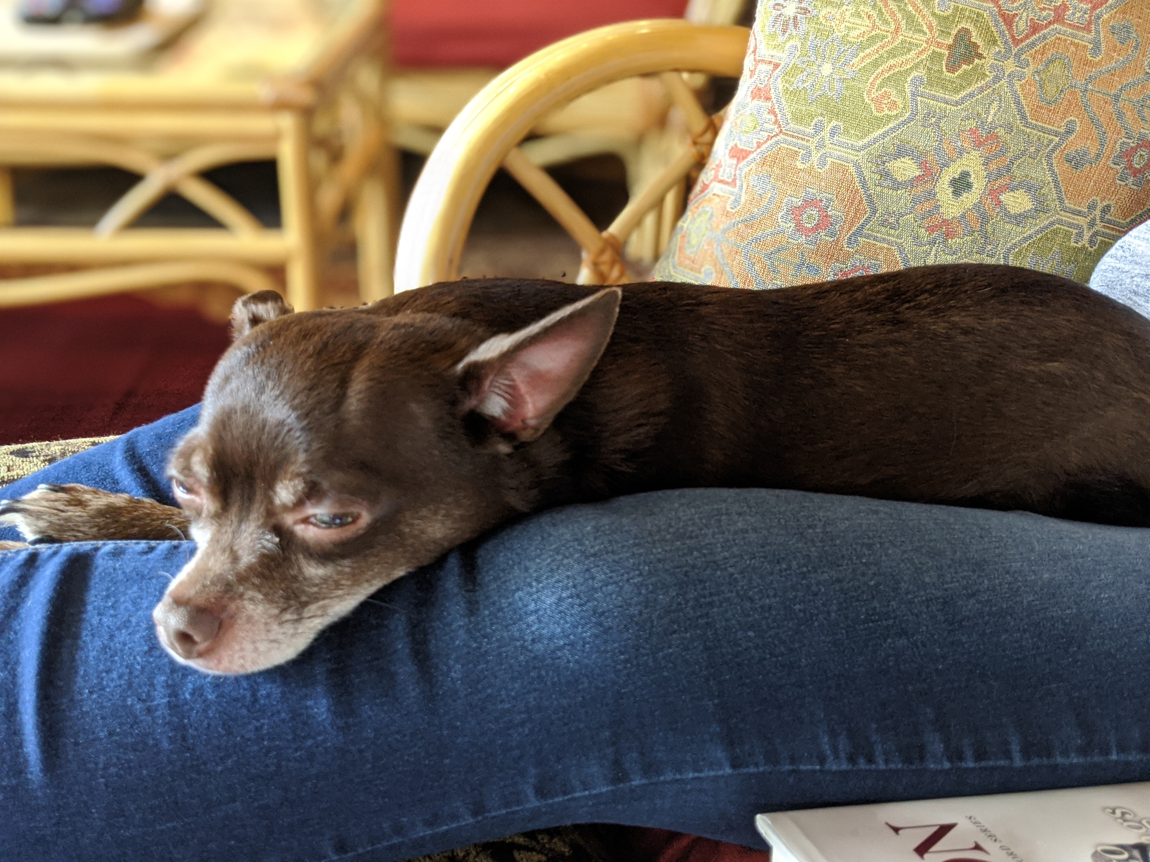 Chihuahua lounging on owner's lap, on top of a couch, background is blurred.